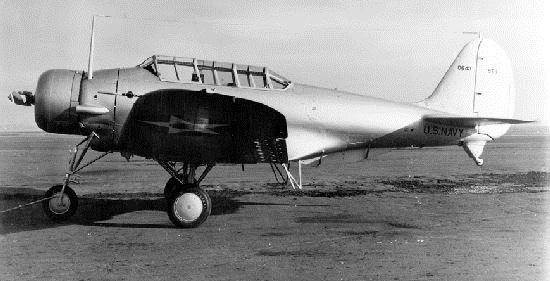 Northrop BT-1 modified to test tricycle landing gear.